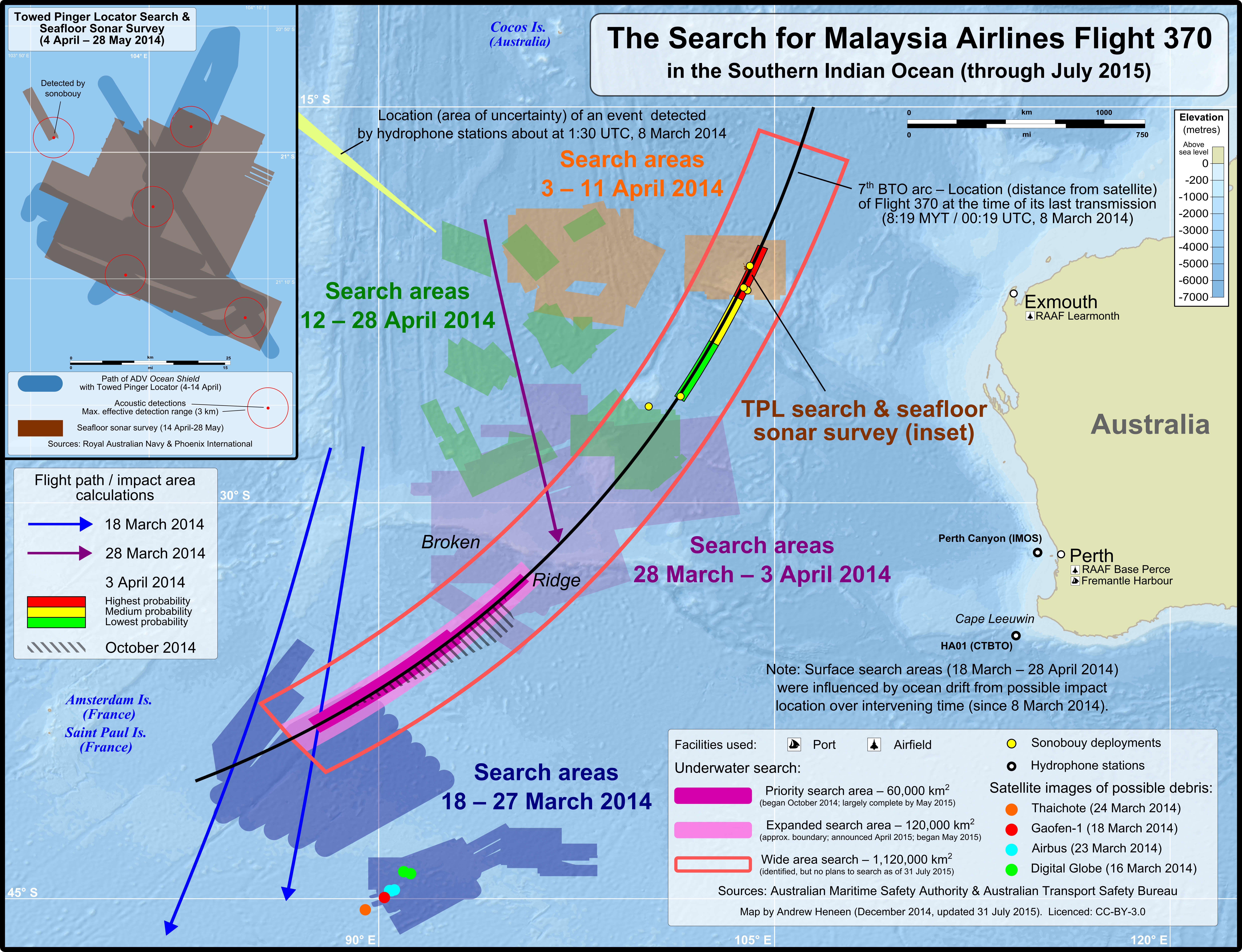 Map of the search areas for Malaysia Airlines Flight 370 in the Southern Indian Ocean. Note that the search areas were determined based on several factors, including drift between the date Flight 370 disappeared (8 March 2014) and the date of the search. Not shown: A Japanese satellite spotted 10 objects possibly related to Flight 370. No coordinates for these objects could be found online; therefore, they haven't been included in the map. The bathymetric survey, which was suspended on 17 December 2014. The map released by the JACC showing the areas surveyed is in a different projection and can't easily be included in this map, but is available here: File:MH370 bathymetric survey progress 23-Dec-2014.jpg